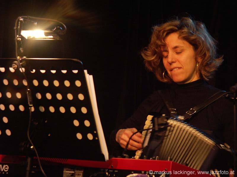 Zeena Parkins performing with Cosa Brava at Jazzit in Salzburg, Austria, 2008-04-05.